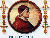 Portrait of Avignon pope Clement VI in the Basiica of Saint Paul Outside the Walls, Rome